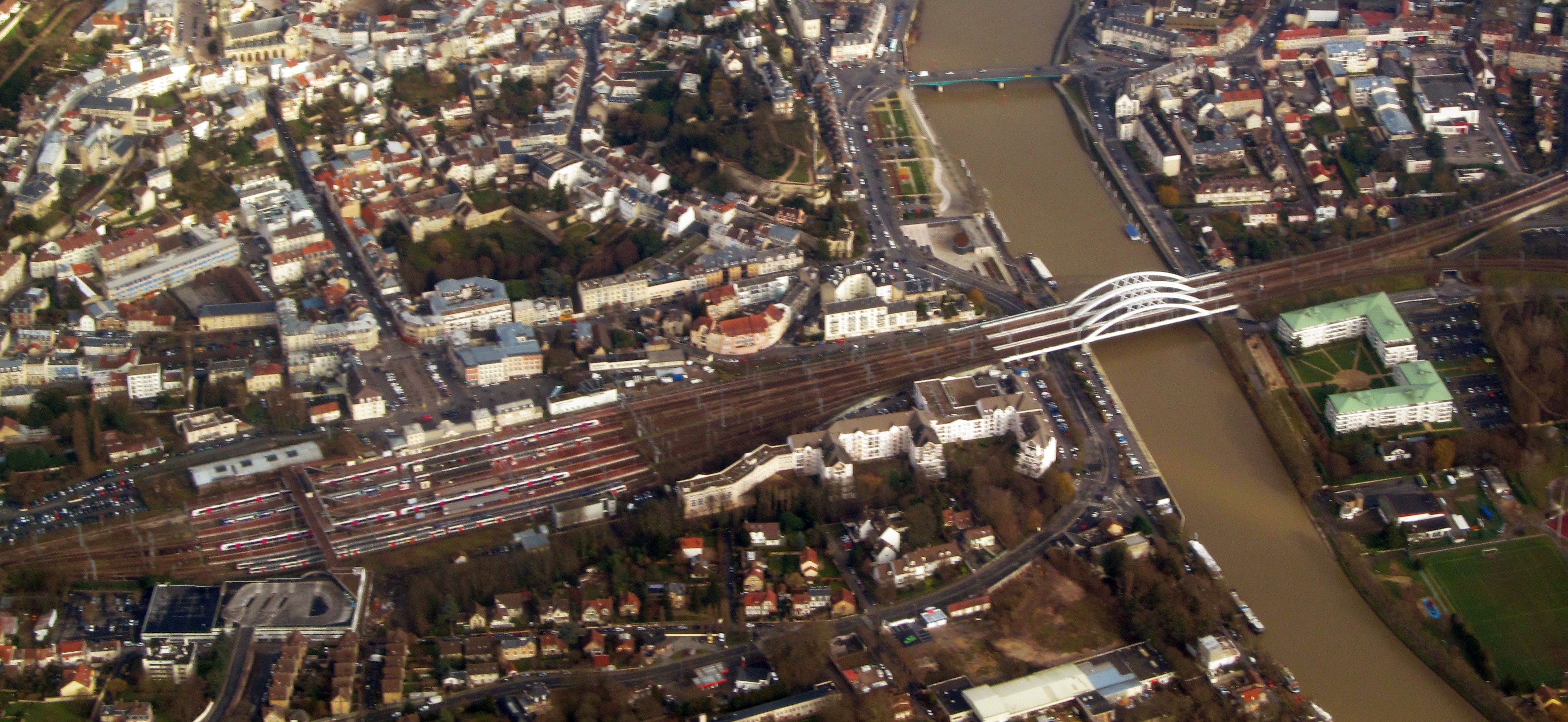 Gare de Pontoise, linked by Rue Thiers to Pontoise Cathedral in the top left of the image.